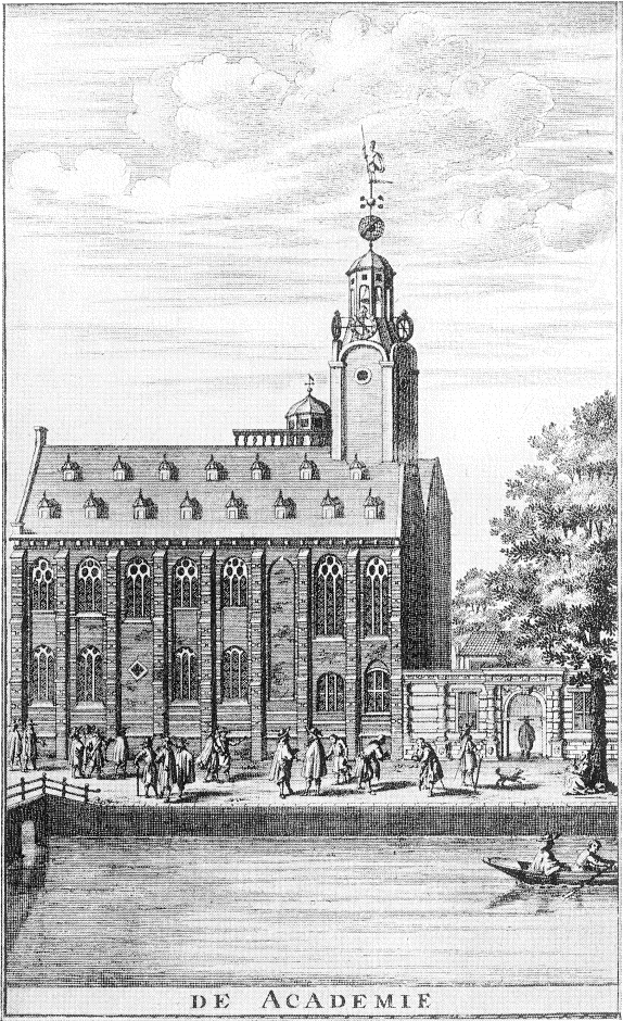 A drawing of the Leiden University building on which Leiden Observatory was built. This image is a reproduction (drawn in 1670) of an engraving from Hagen's map of Leiden from the same year.